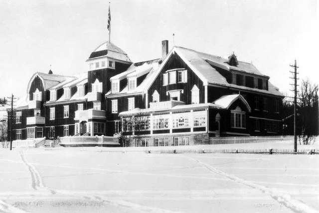 Dombaas Tourist hotel at Dombås, Norway (1917 - 2007)